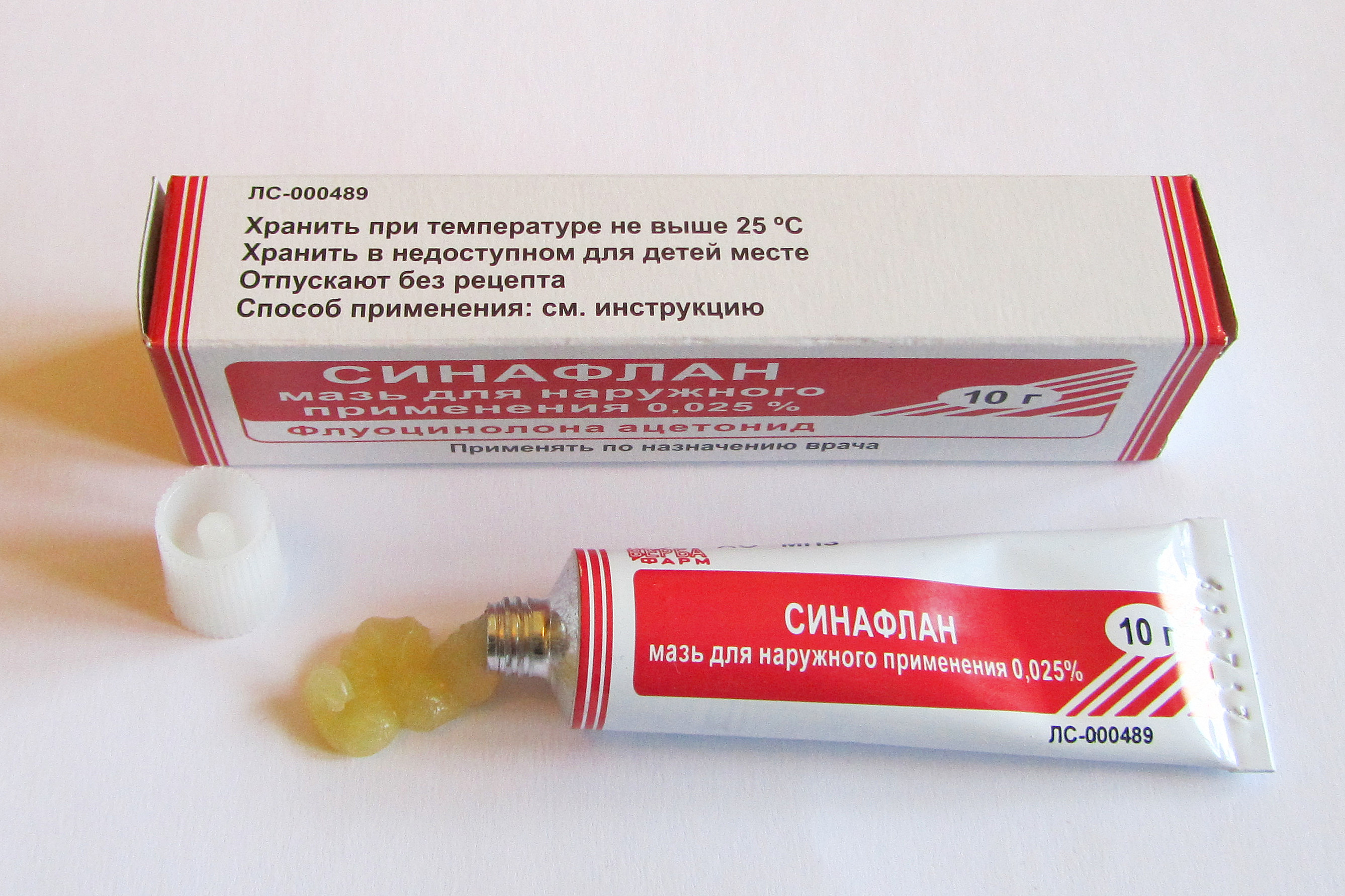 Fluocinolone acetonide